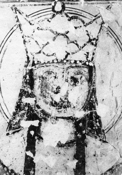 Tamar of Georgia, a mural from the Bertubani monastery.